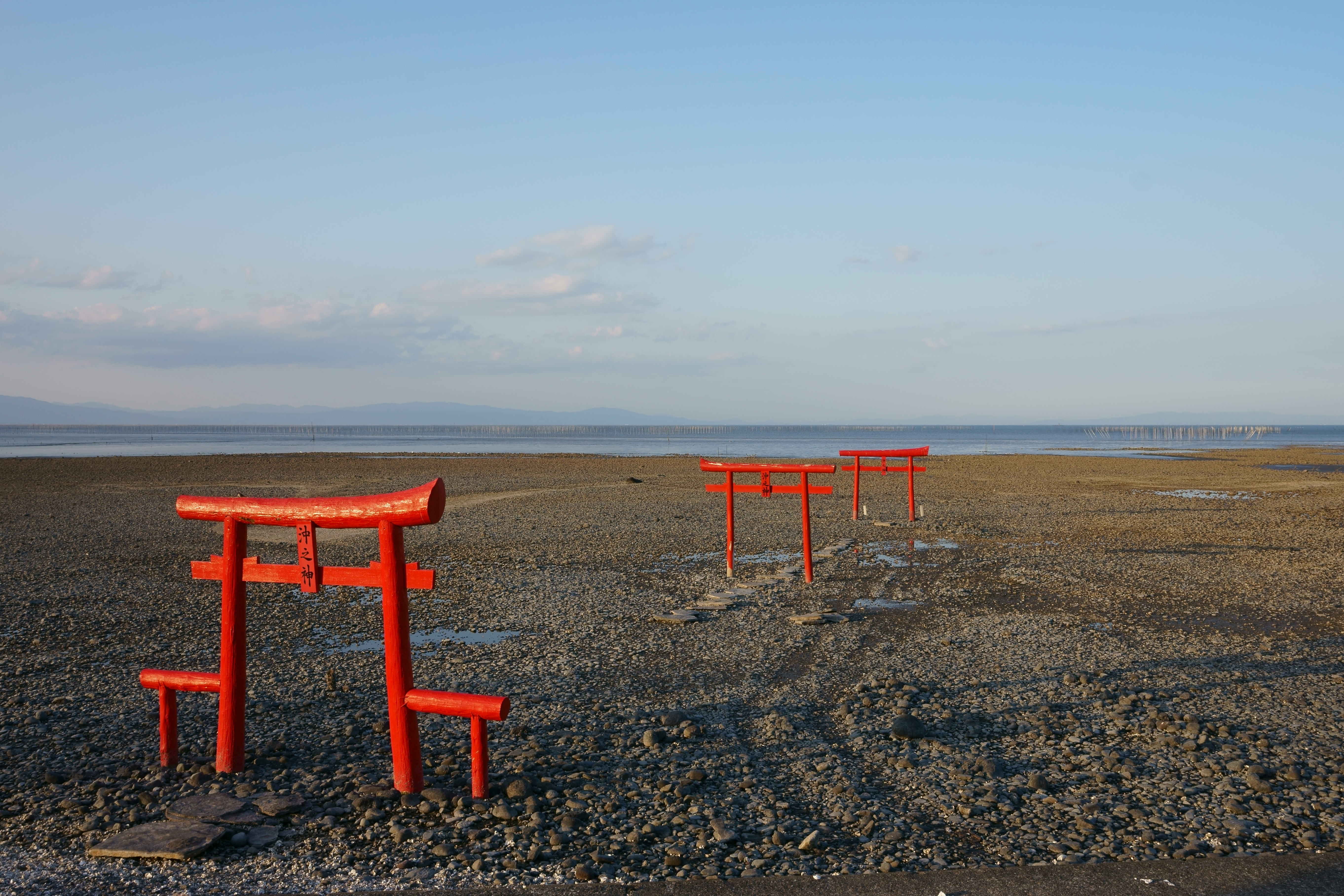 Sea Torii of Ohuo Shrine at low tide, in Tara town, Saga prefecture.